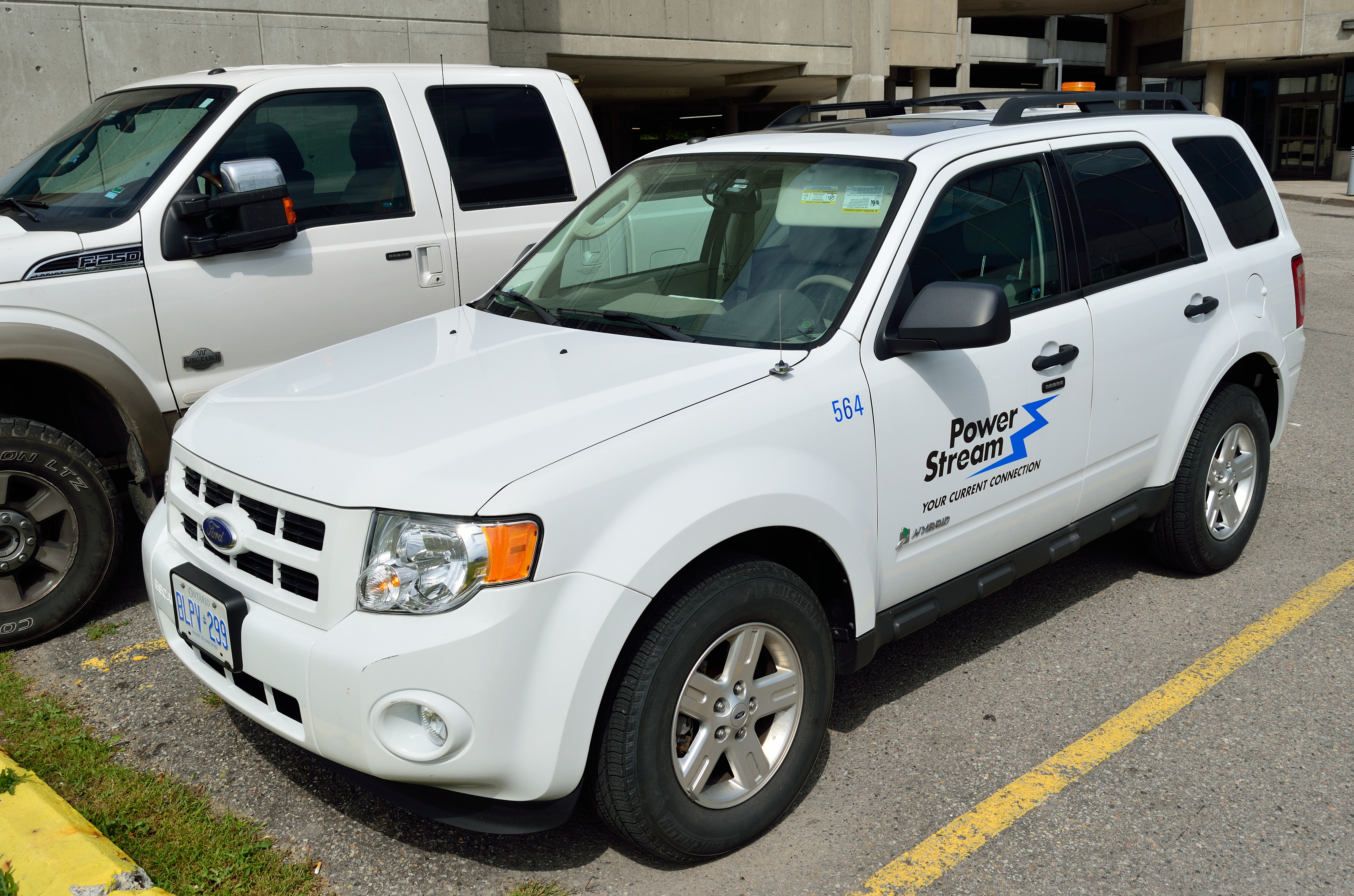 A PowerStream Van